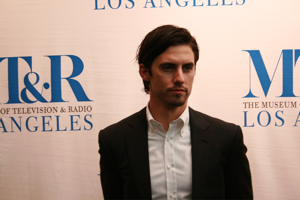 Milo Ventimiglia at the William S. Paley Festival for Heroes, March 10, 2007.